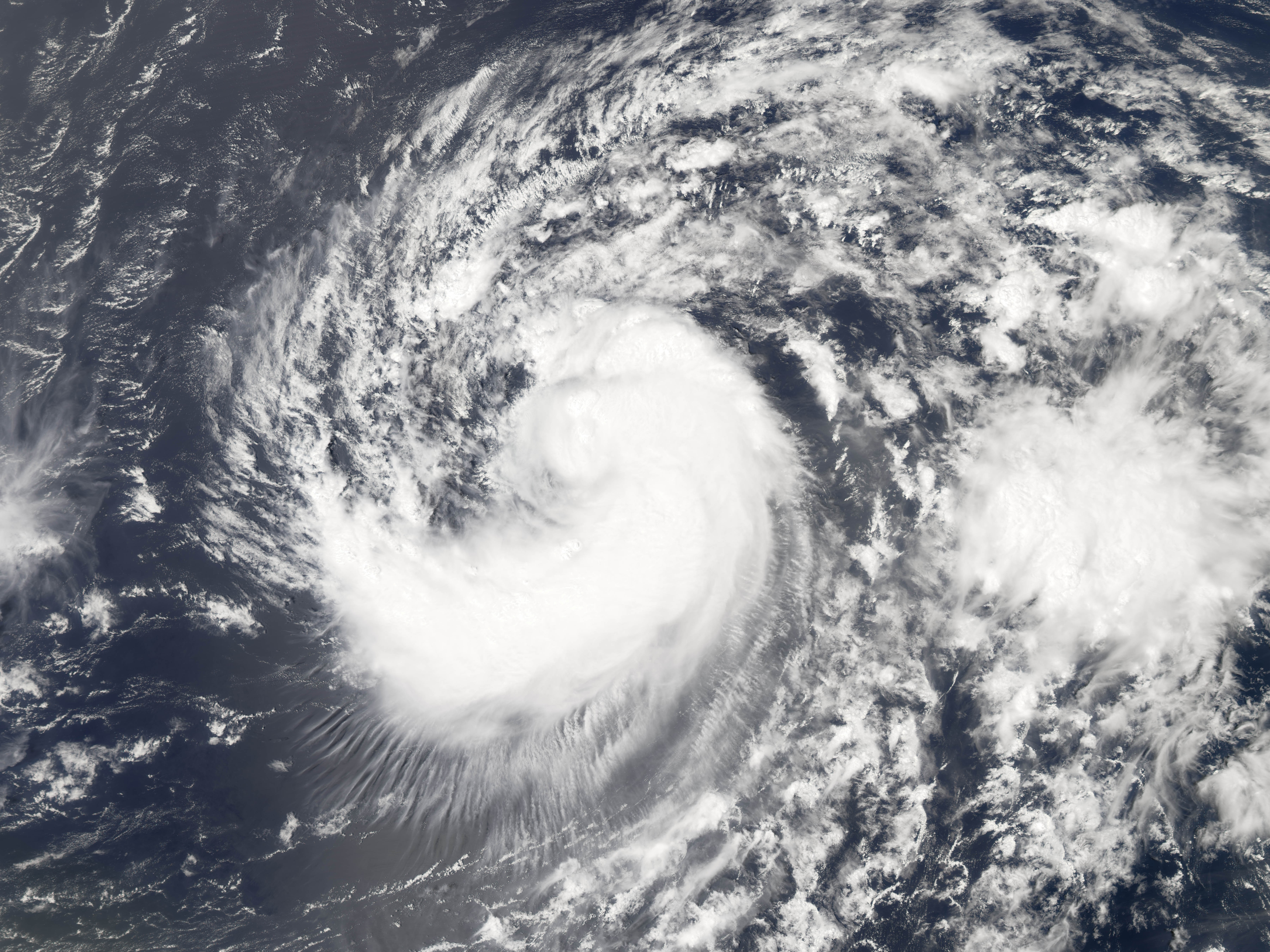 Hurricane Helene was the eighth named storm of the 2006 Atlantic hurricane season. The tropical depression (area of low air pressure) from which it formed began intensifying and forming a tropical storm system south of the Cape Verde Islands on September 12. The system crossed the Atlantic Ocean over the course of several days, gathering power as it went. By the morning of September 17, it was a powerful Category 3 hurricane. This photo-like image was acquired by the Moderate Resolution Imaging Spectroradiometer (MODIS) on NASA’s Aqua satellite on September 15, 2006, at 12:10 p.m. local time (16:10 UTC). Helene was still a tropical storm at this point in time, but hours from reaching Category 1 hurricane status. This MODIS image of Helene shows the hallmarks of a storm system in the act of intensifying, with a tightly wound core around hints of a forming eye, some developing spiral-arm structure, and to the south and west of the storm, a radial cloud pattern seen in many hurricanes. The spiral structure is incomplete and highly asymmetric, more typical of a tropical storm than a hurricane. Tropical Storm Helene had sustained winds of around 110 kilometers per hour (70 miles per hour) at the time this satellite image was acquired, according to the University of Hawaii’s Tropical Storm Information Center. These speeds placed the storm just below the threshold of hurricane status. While only the second major (Category 3 or higher) hurricane of the season, Helene comes immediately on the heels of the first, Hurricane Gordon. As of September 17, storm track projections showed a reasonable probability of Helene passing near Bermuda. The island was still recovering from an indirect hit from Hurricane Florence just two weeks earlier and from storm surge and strong surf from a more distant Hurricane Gordon.